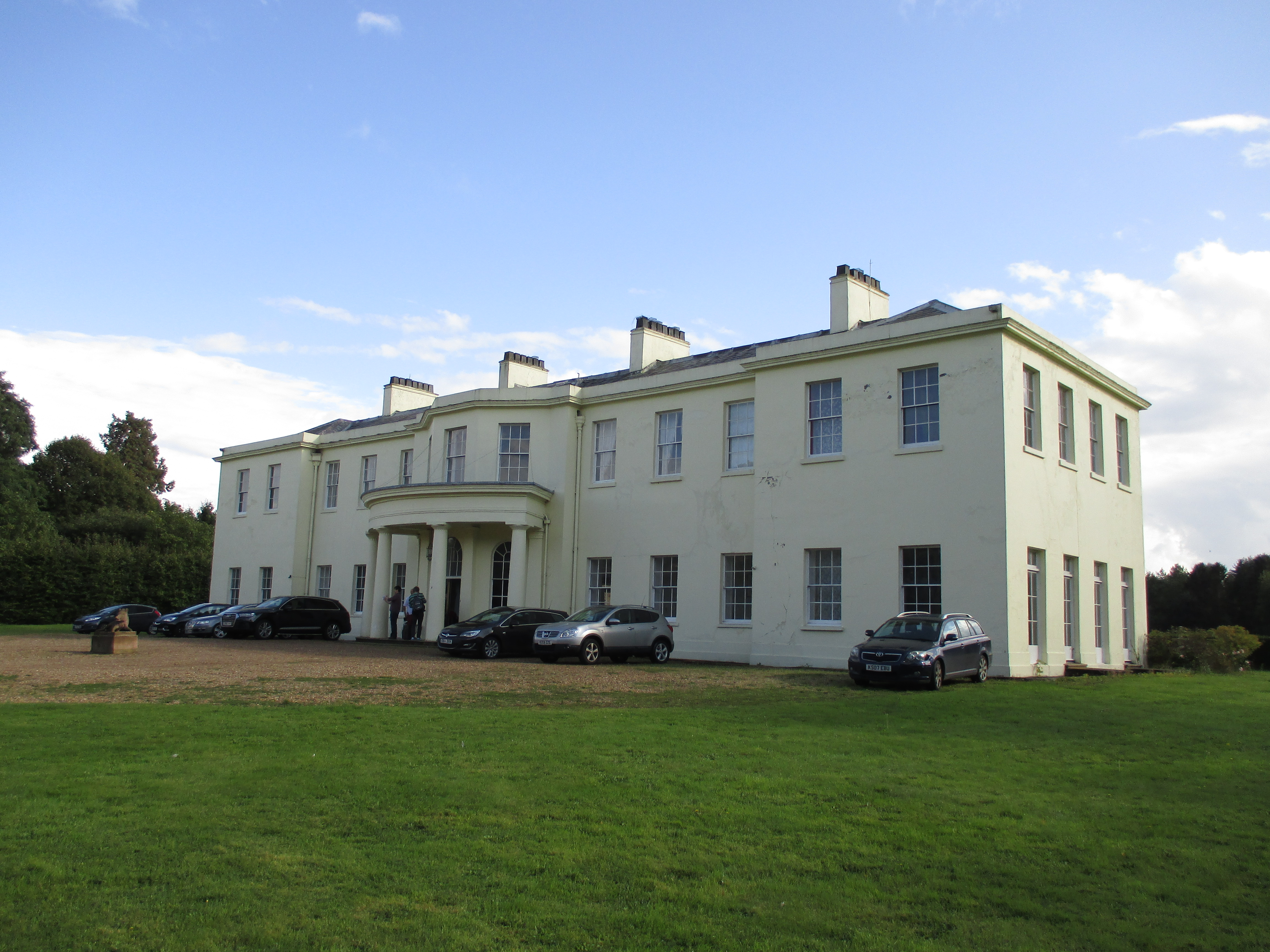 The front of Clermont Hall, near Little Cressingham, Norfolk, seen from the north-west.